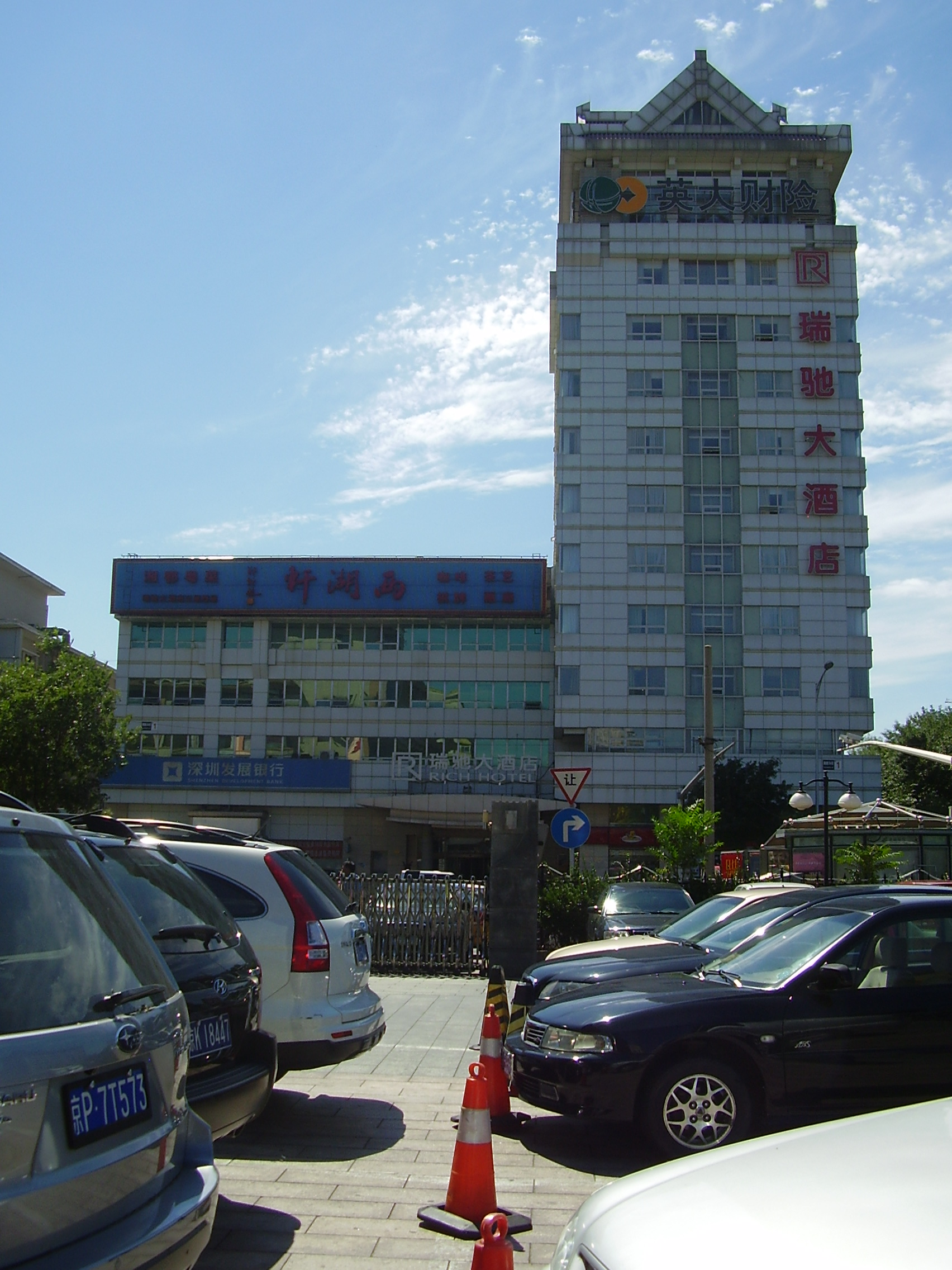 Rich Hotel (S: 瑞驰大酒店, T: 瑞馳大酒店, P: Ruì Chí Dàjiǔdiàn) - No. 1 South Xinhua Street (Nanxinhuajie), Xicheng District (formerly Xuanwu District), Beijing, China